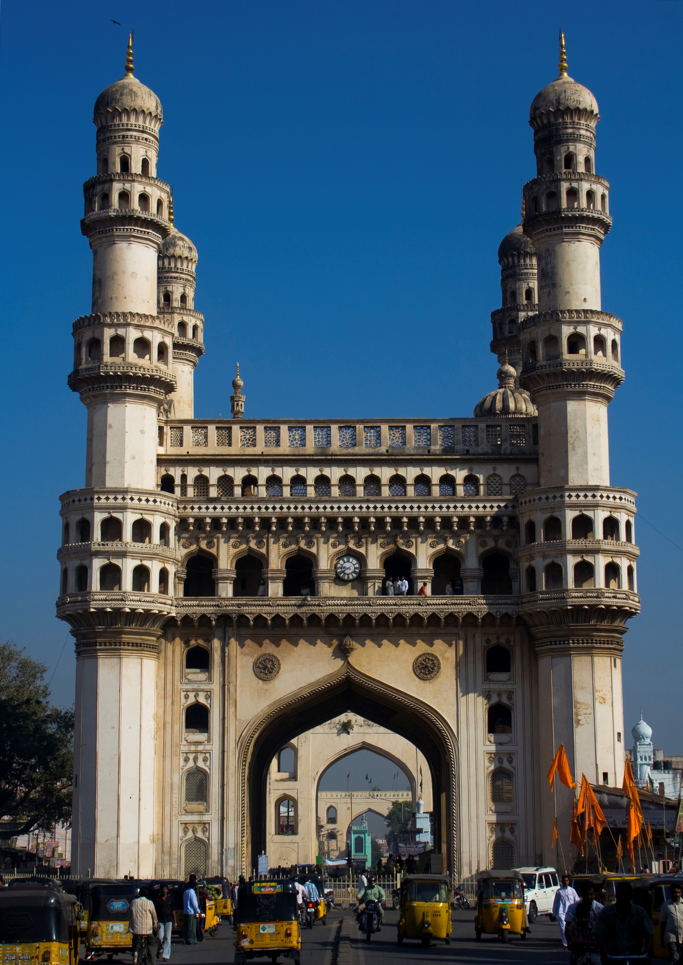 Charminar at Hyderabad, India